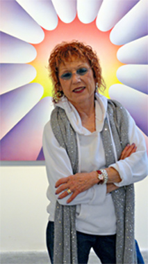 Portrait of the American feminist artist, art educator and writer Judy Chicago